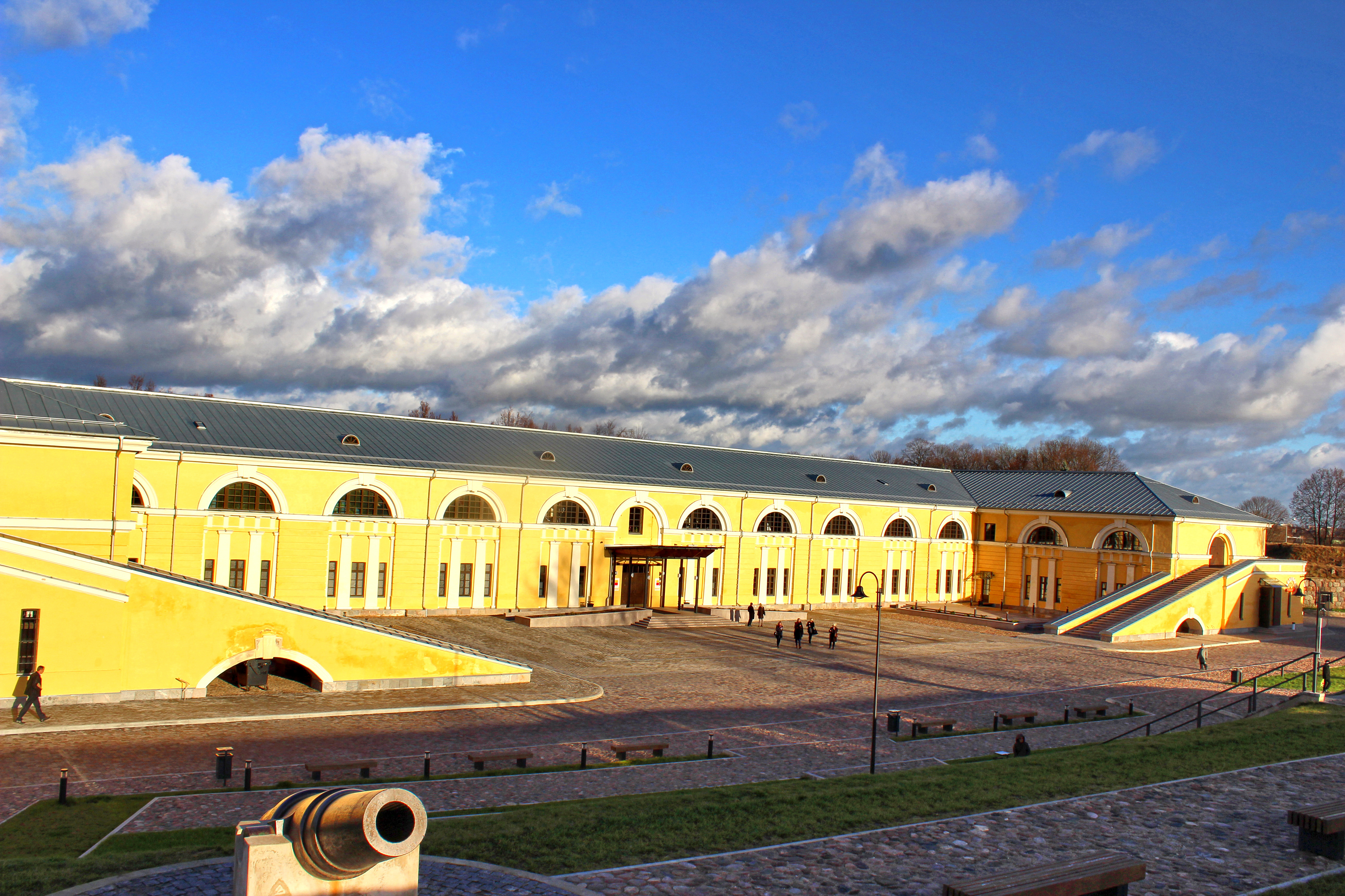 Daugavpils Fortress's artillery arsenal